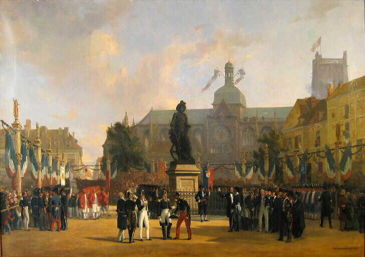 Inaugurating the Statue of Abraham Duquesne